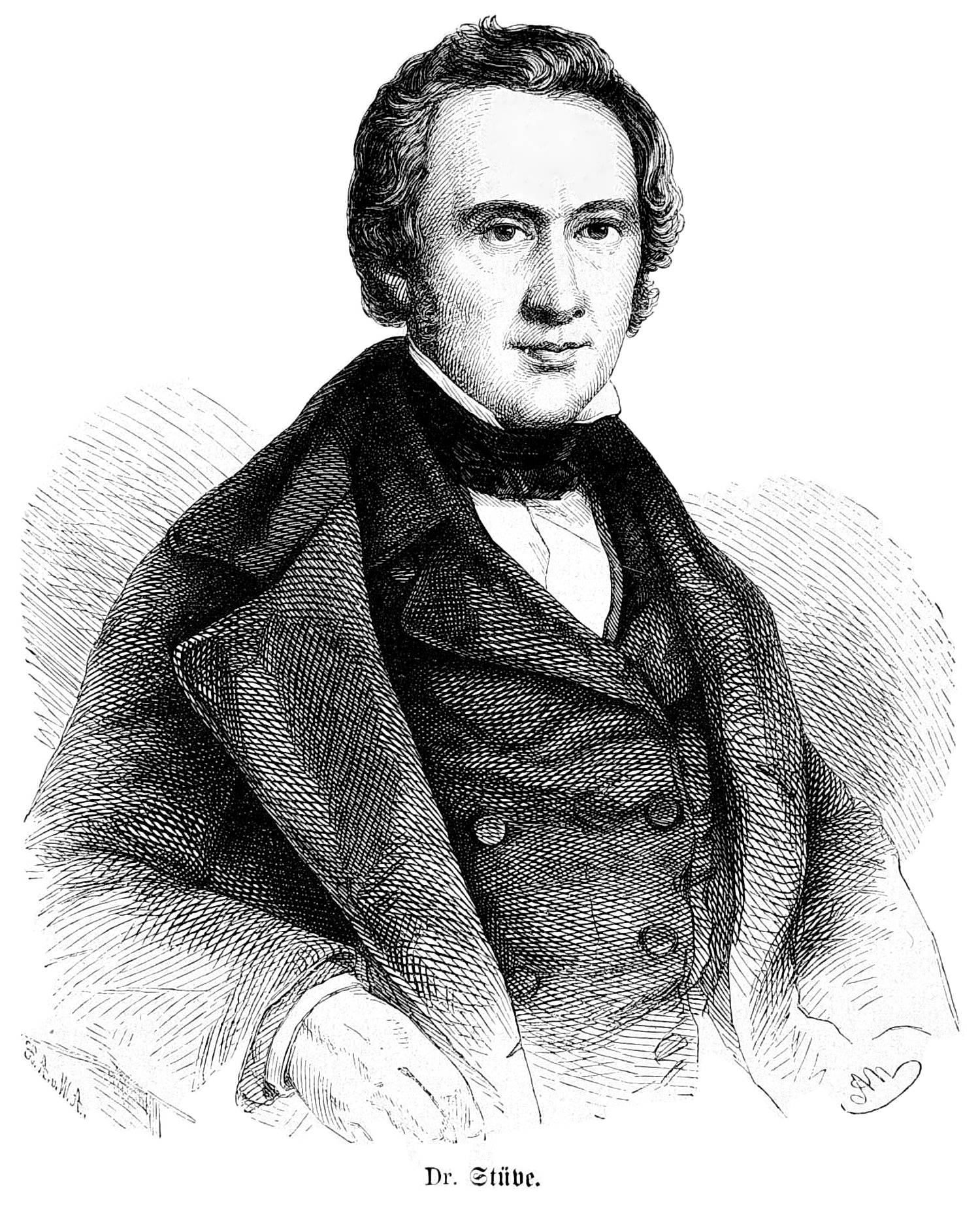 Image from page 167 of book Die Gartenlaube, 1872.